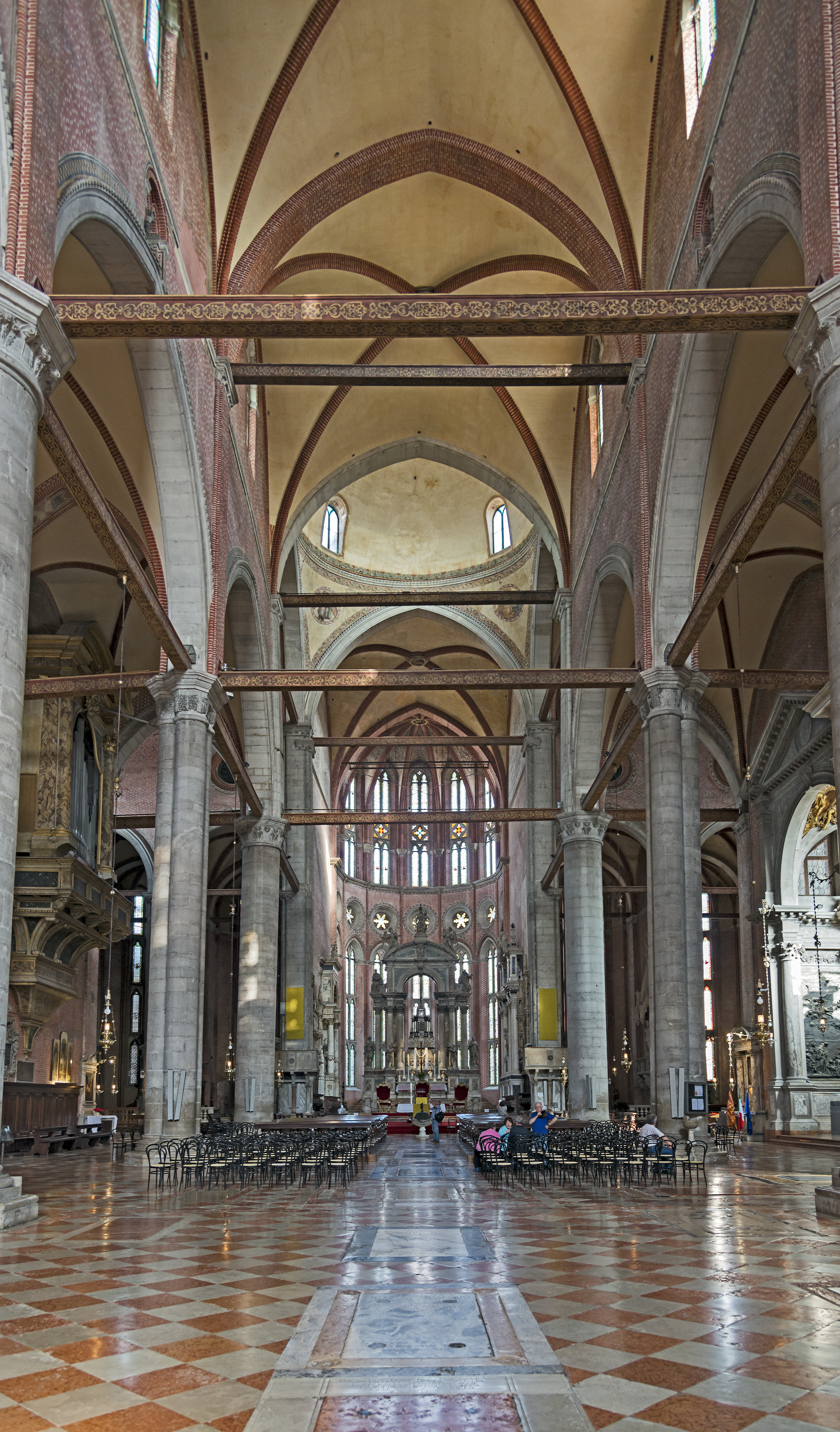 Santi Giovanni e Paolo in Venice. General view of the interior of the Basilica.